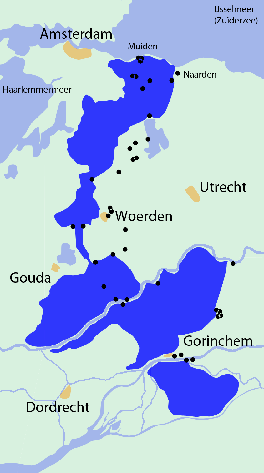 "Old" Dutch Water Line in the 17th and 18th century.